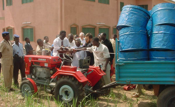 Chargé d'Affaires of Embassy Cotonou David Brown (fifth from right) assists local officials of Dassa Zoume with a ribbon cutting honoring the acquisition (with SSH funds) of a mini tractor which will help villagers cultivate their rice fields.